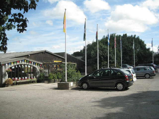 Pennywell Farm